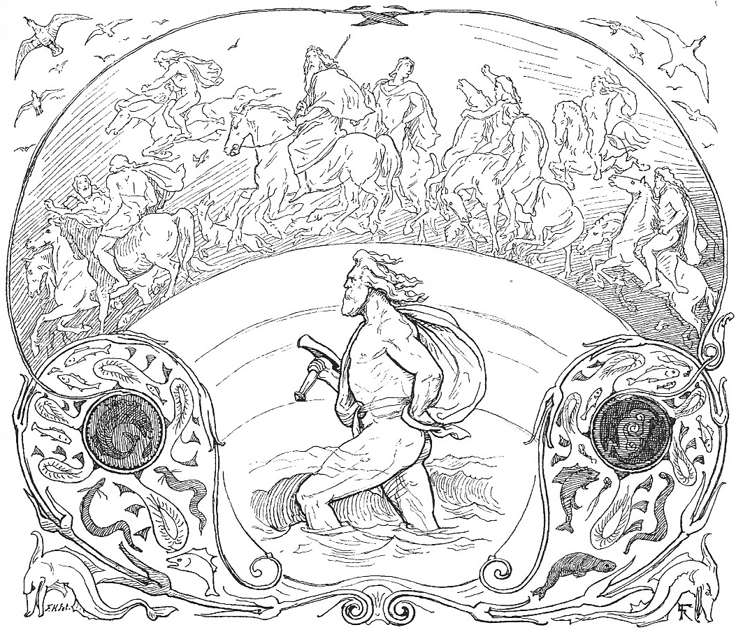 Thor wades rivers while the rest of the æsir ride across the bridge Bifröst as described in Grímnismál.